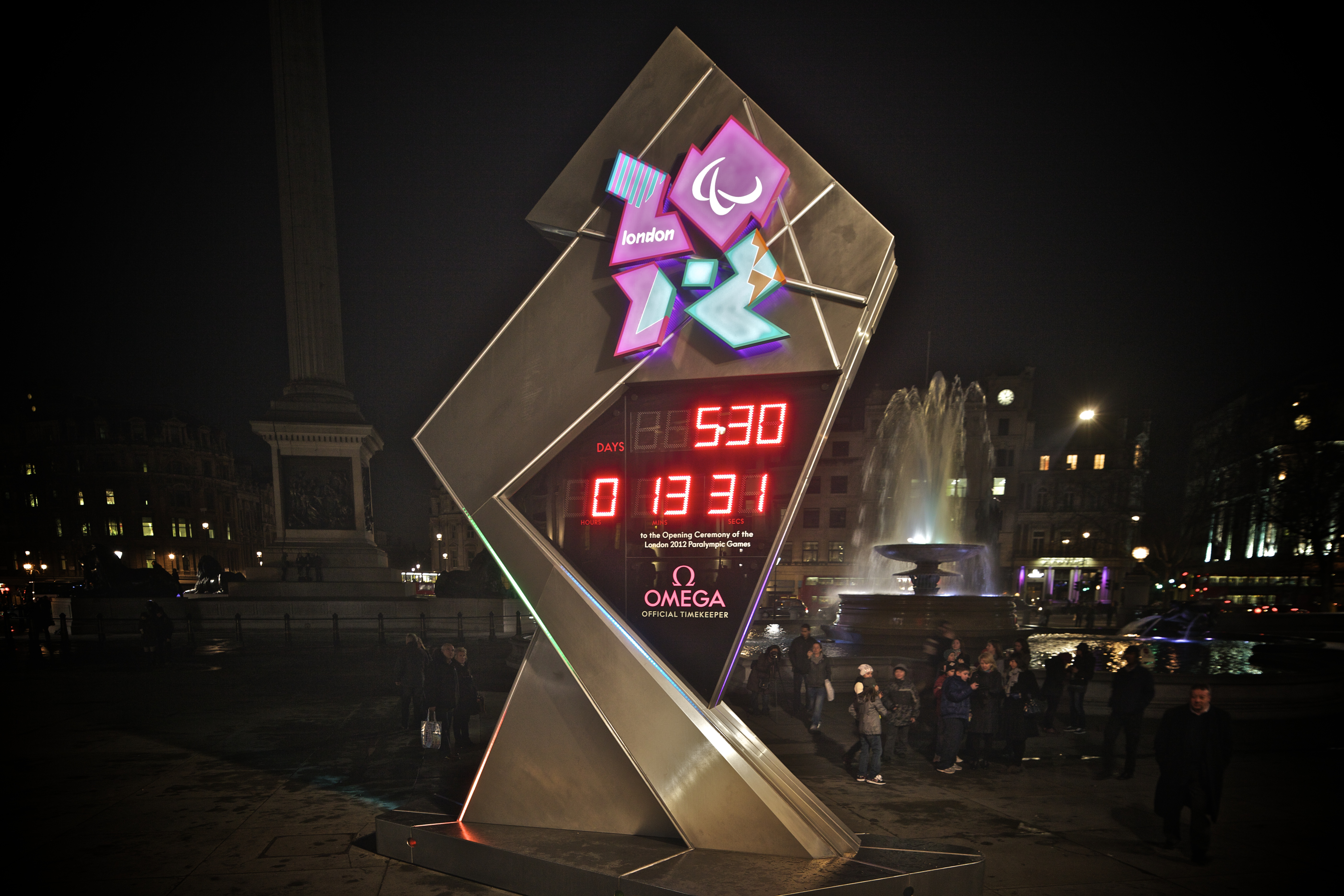 Countdown